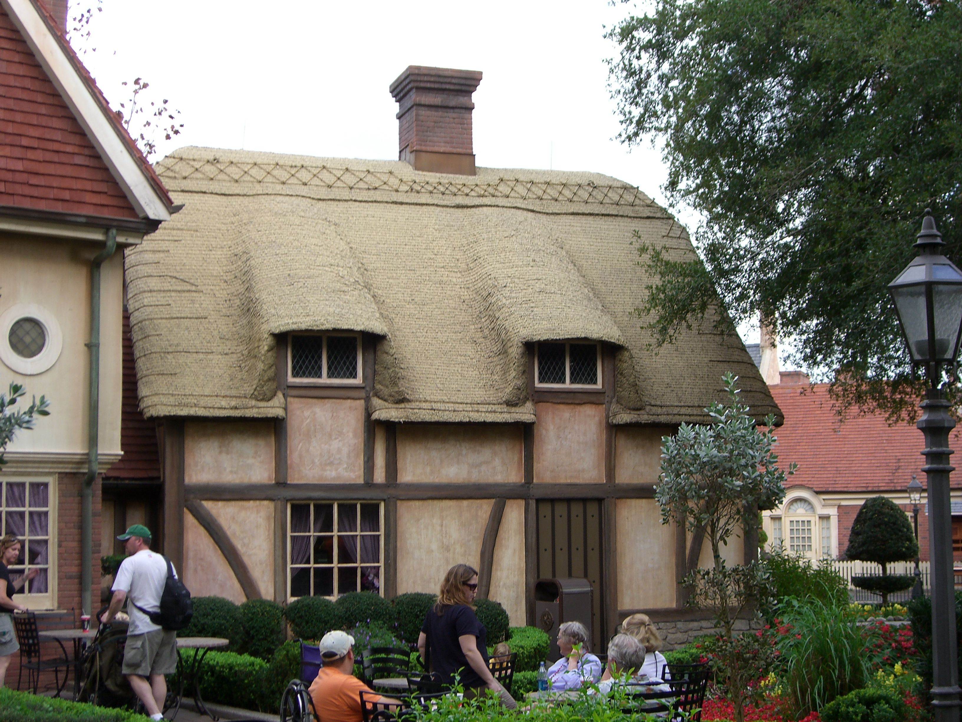 Cottage in the United Kingdom pavillion at Epcot.